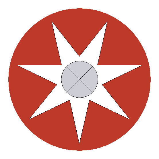 Shield pattern of Solenses Seniores in the early 5th century. Source: Notitia Dignitatum Or. VIII